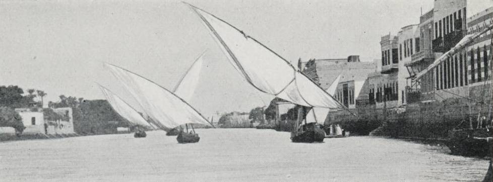 NILE AT CAIRO.Several boats with large curved sails on the Nile.